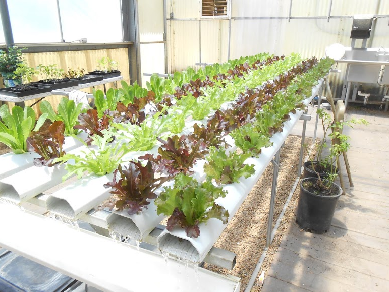 Sustainable produce being grown at the Sustainable Technology Optimization Research Center located on the California State University, Sacramento campus.